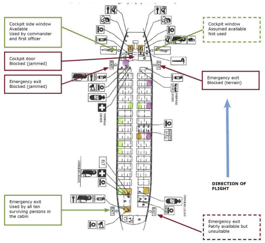 Atlantic Airways Flight 670: Position in the aircraft, degree of injury and accessible emergency exits Red: Died Orange: Seriously injured Green: Minor or no injuries